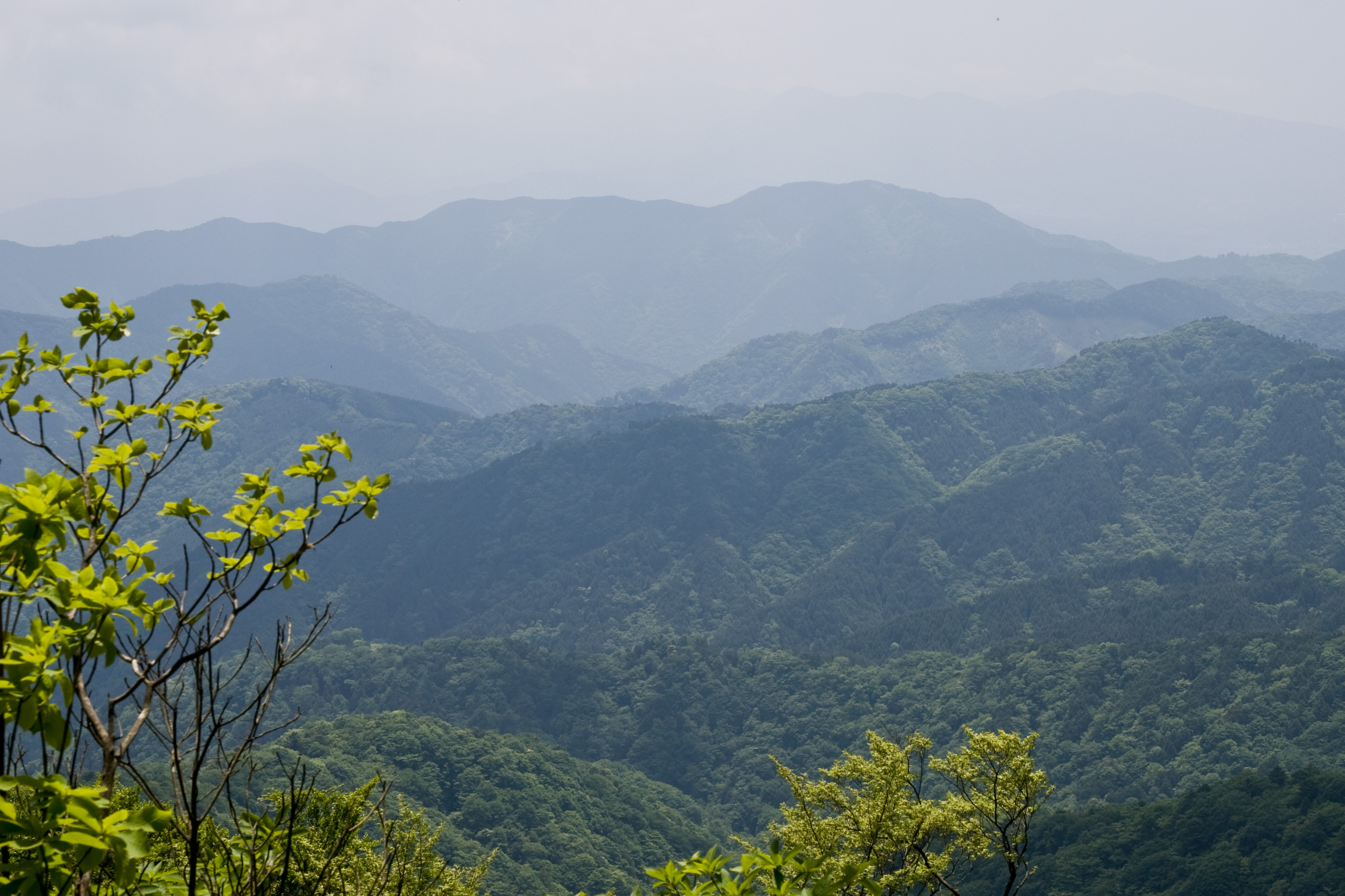 Mt.Furo as seen from Mt.Jogao, Kanagawa and Yamanashi Pref, Japan.